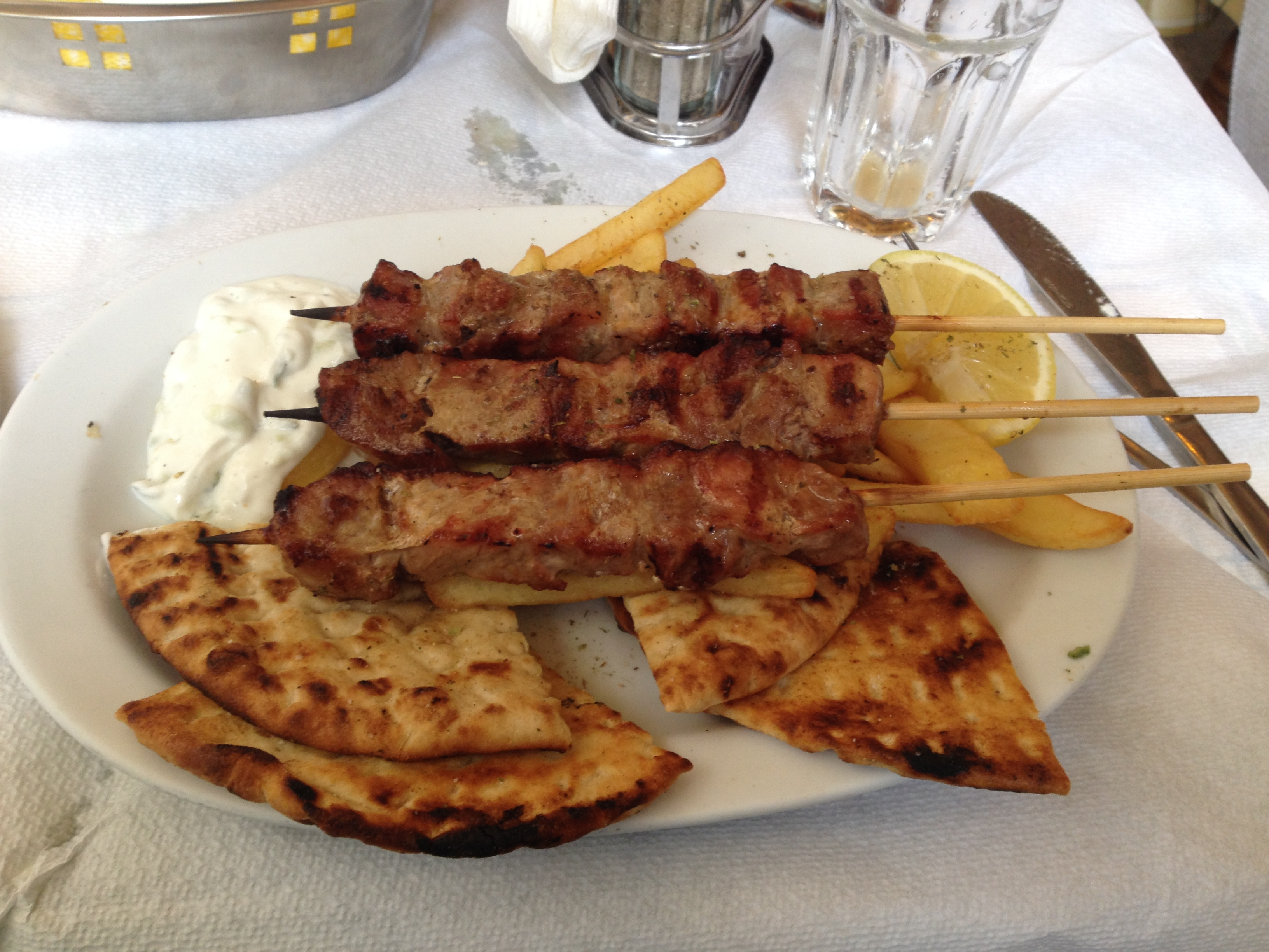 Some souvlaki from a bit of a tourist trap in Athens.